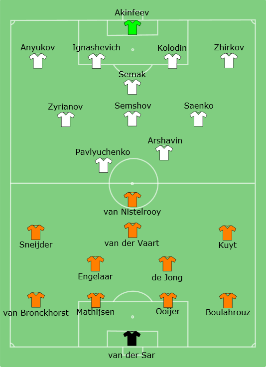 Line-ups for the UEFA Euro 2008 match between Netherlands and Russia on 21 June 2008 at St. Jakob-Park, Basel (in English).